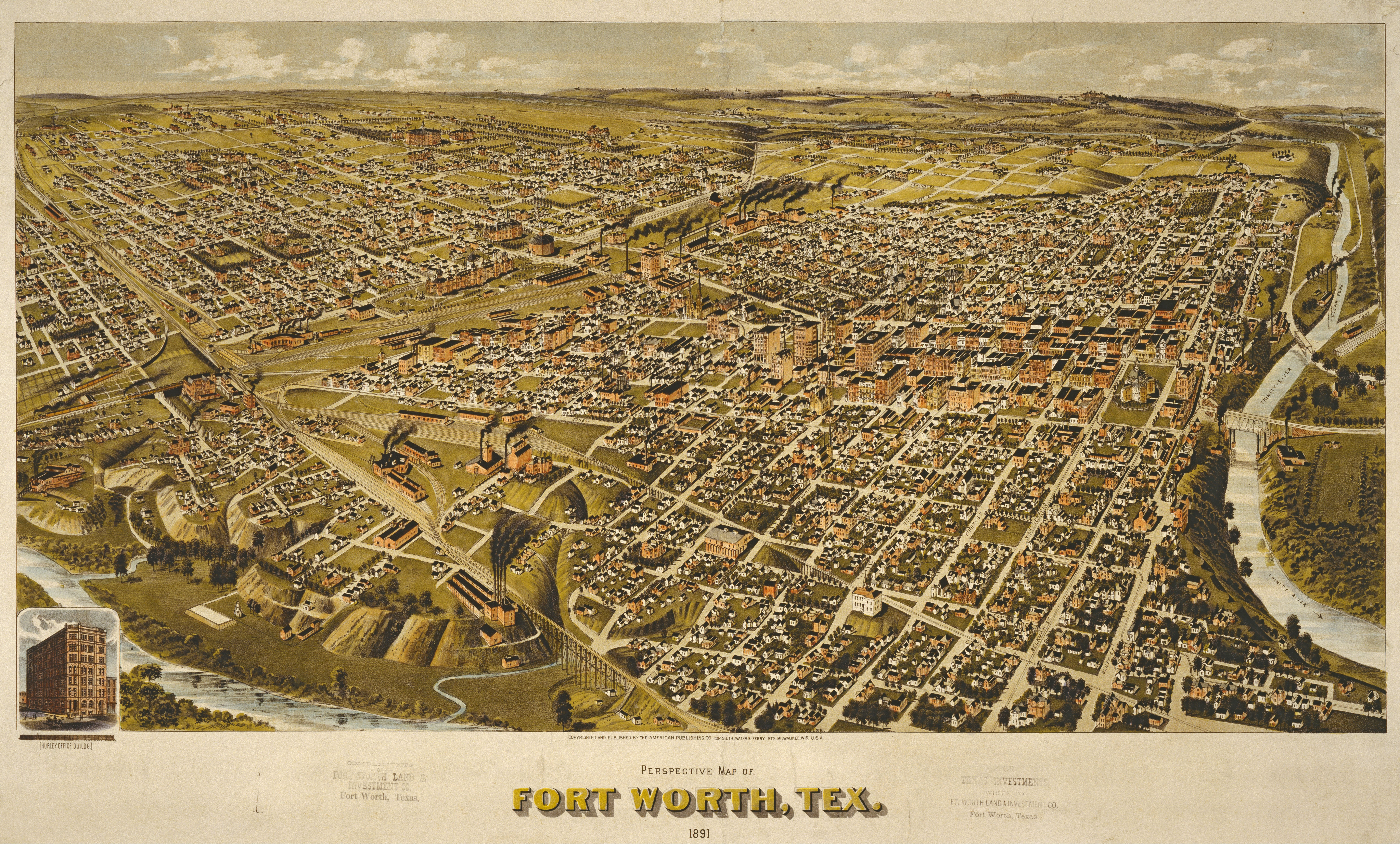 Fort Worth, Texas in 1891. Perspective Map of Fort Worth, Tex. 1891. Lithograph, 17.25 x 33.4 in. Published by the American Publishing Co. Cor.South Ferry Sts. Milwaukee. Amon Carter Museum, Fort Worth.